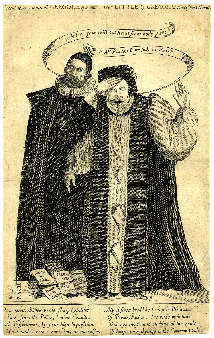 Satire on Laud who stands vomiting books, his head supported by Henry Burton.